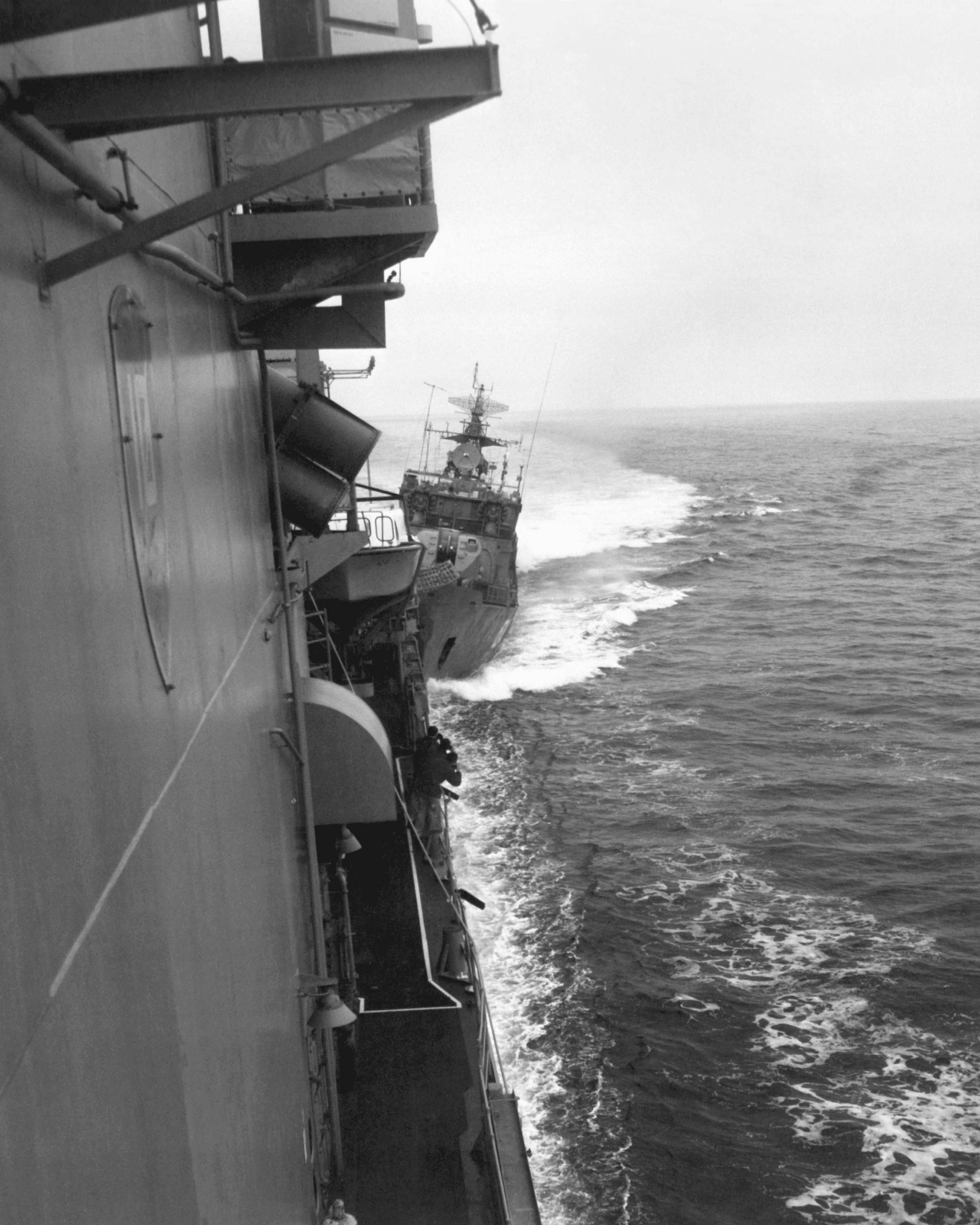 The destroyer USS CARON (DD 970) is struck by the bows of a Soviet Mirka I class light frigate SKR-6 (FL-824) as the American vessel exercises the right of free passage through the Soviet-claimed 12-mile territorial waters.